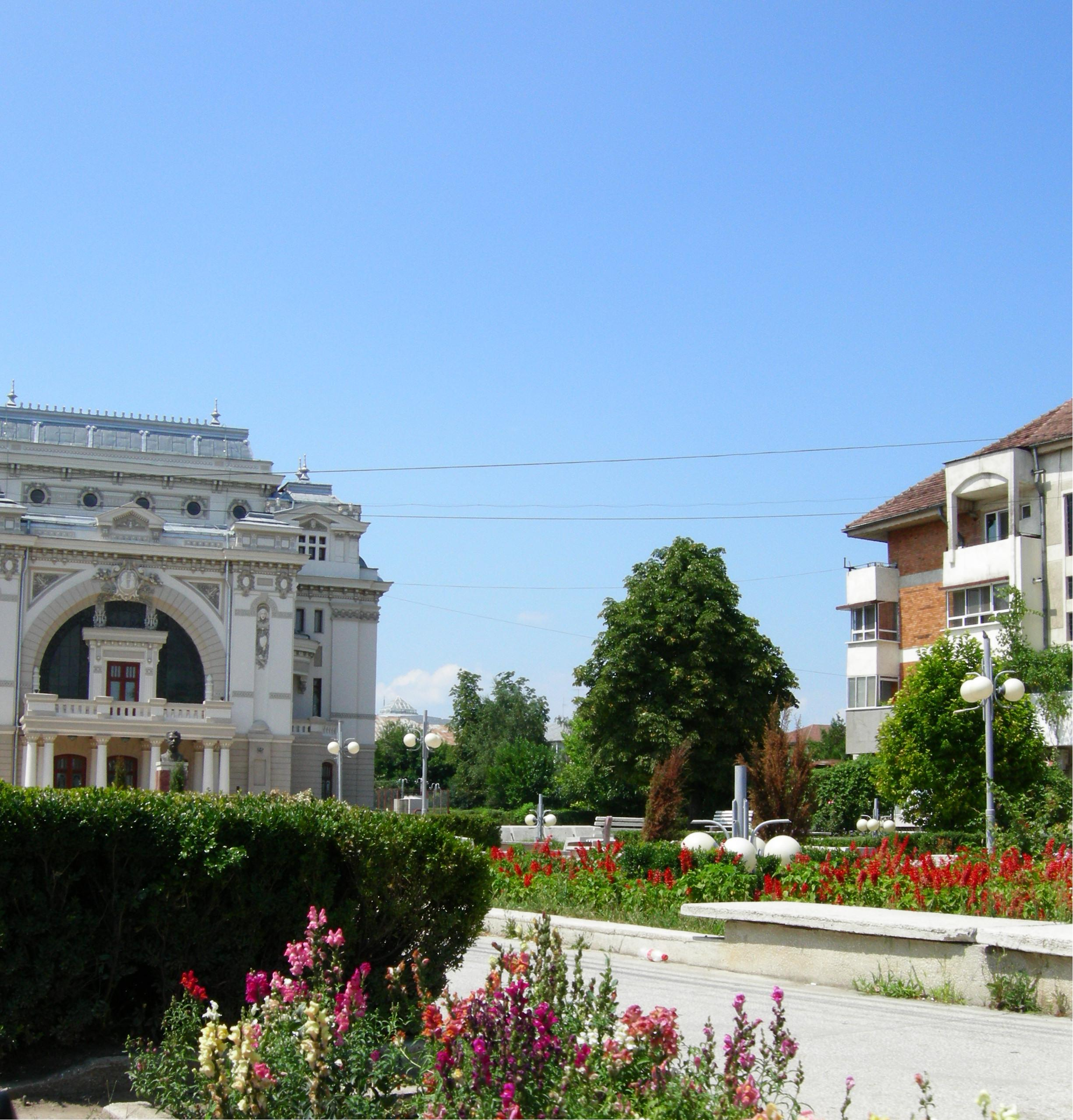 The theater of Focşani